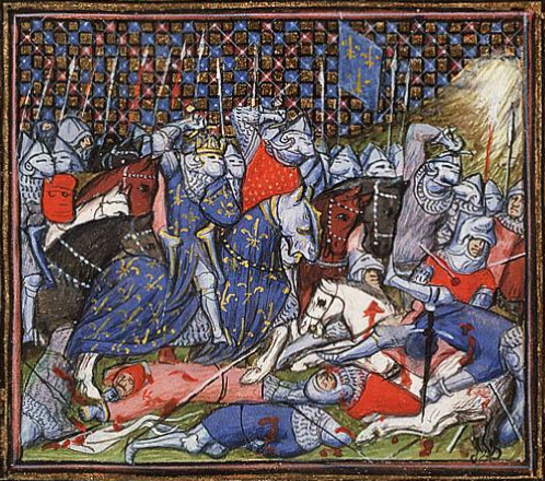 Jean Froissart, Chroniques (Vol. I): The battle between the Flemish and the French at Cassel. Place of origin, date: Paris, Virgil Master (illuminator); c. 1410 Material: Vellum, ff. 382, 385x288 (243x187) mm, 42 lines, littera cursiva, Binding: 18th-century brown leather; gilt; with coat of arms of Stadholder William V Decoration: 1 two-column miniature (170x180 mm); 29 column miniatures (115/65x95/80 mm); 1 historiated initial (45x50 mm); decorated initials with border decoration (ff. 1r, 24r, 36r, 62r, 74v, etc.) Provenance: Louis de Luxemburg, conn‚table de France (d. 1475; signature, erased); by descent to his granddaughter Françoise de Luxembourg and her husband Philip of Cleves (d. 1528; coat of arms with label, over erasure; signature); purchased in 1531 from Philip's estate by HenriIII, Count of Nassau (d. 1538); by descent to the Princes of Orange-Nassau, the later Stadholders, at The Hague; carried off in 1795 to Paris by the French and restituted to the Koninklijke Bibliotheek in 1816